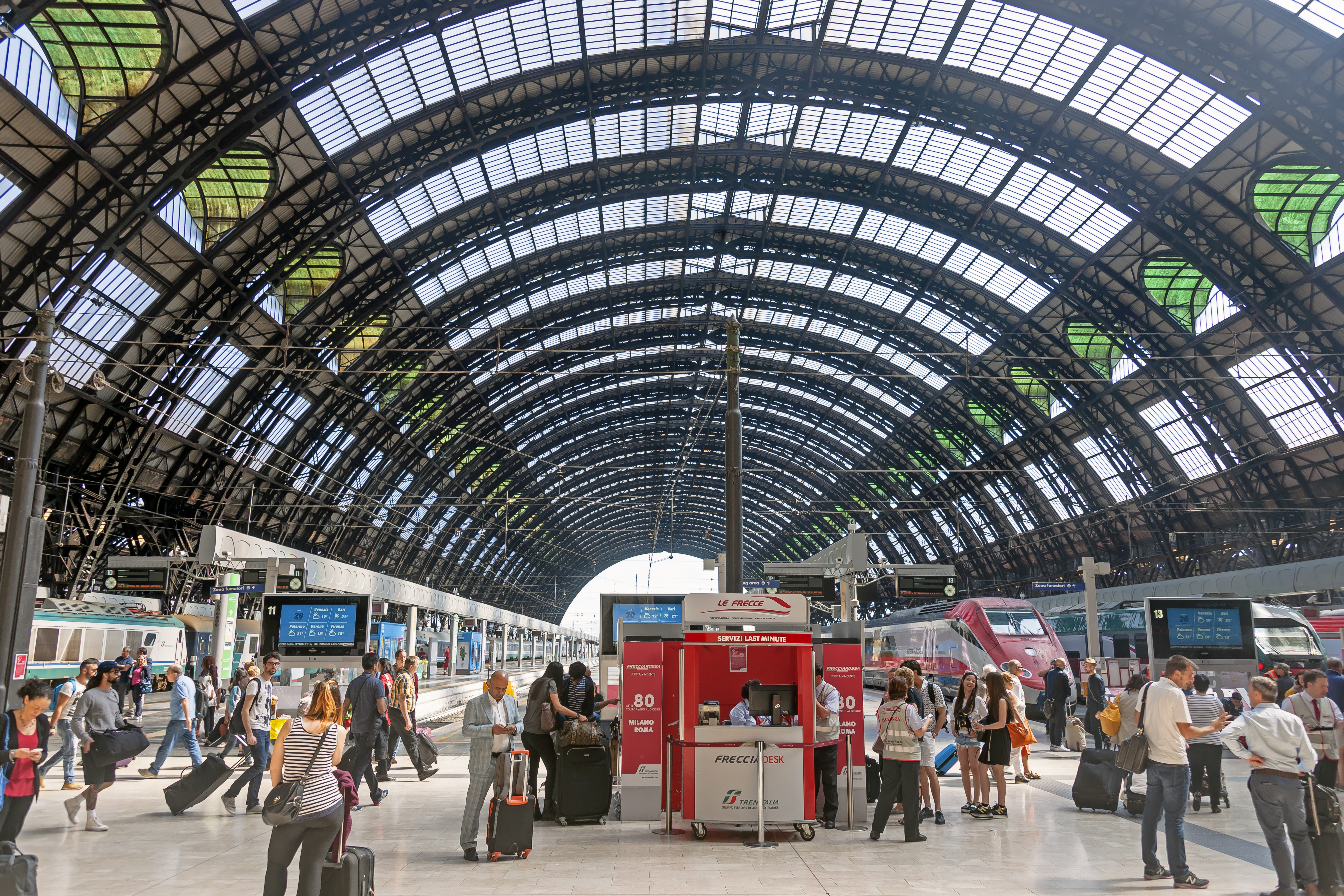 Main trainshed of Milan Centrale station.